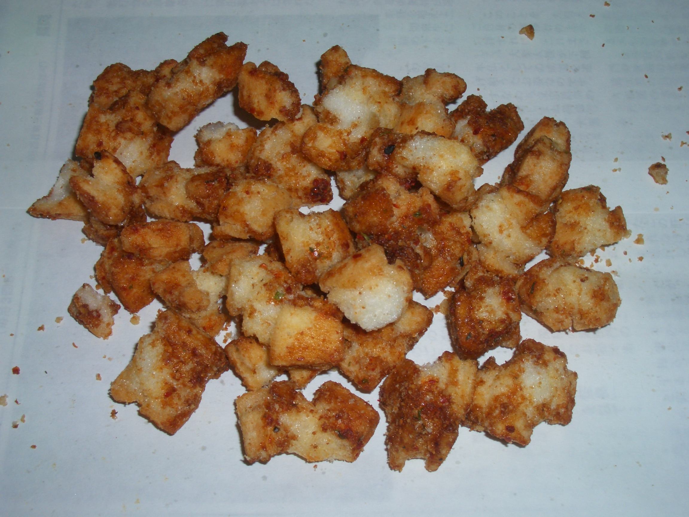 Author: B.K. Bullock.